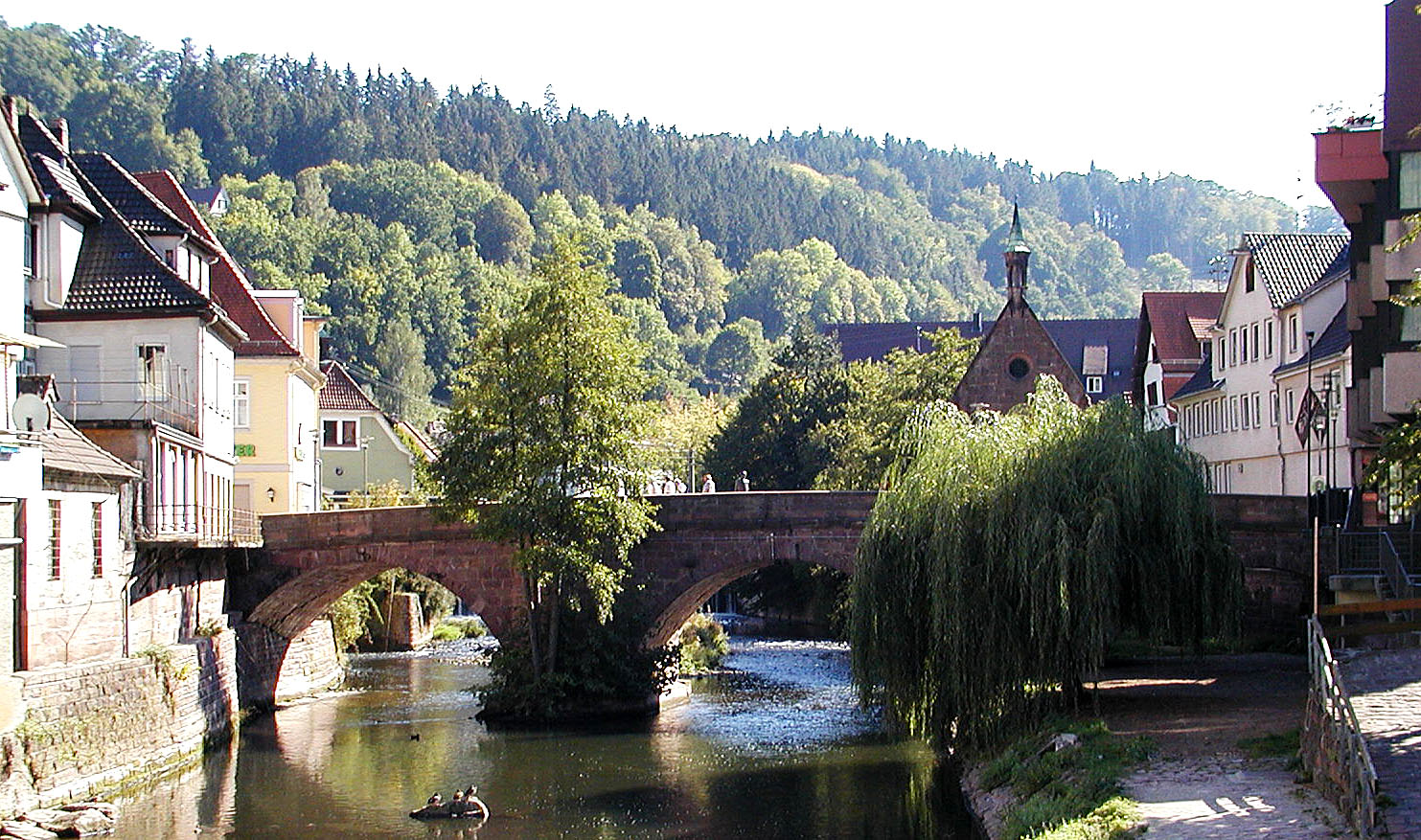 Nikolaus-Bridge in Calw, a place Hermann Hesse preferred to stay for fishing at the river Nagoldt. Today (2009) there is a sculpture right on the top of the bridge showing Hesse